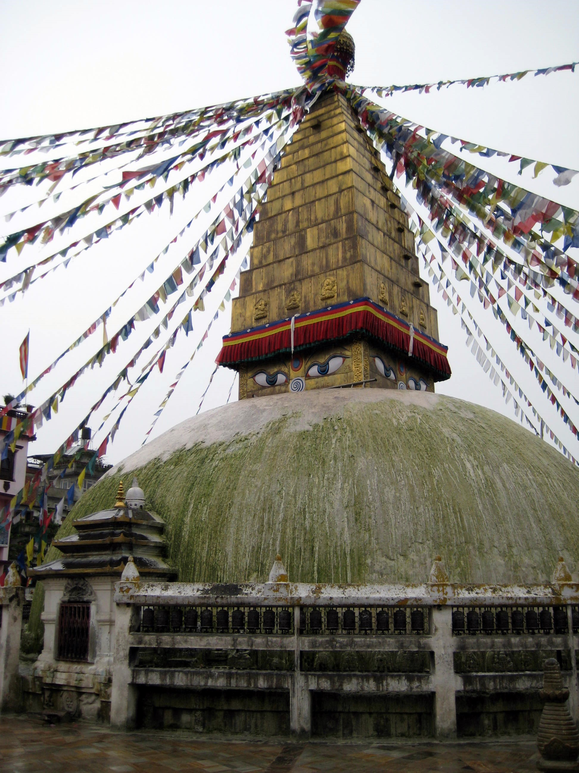 Chabahil stupa in Kathmandu Valley, Nepal.